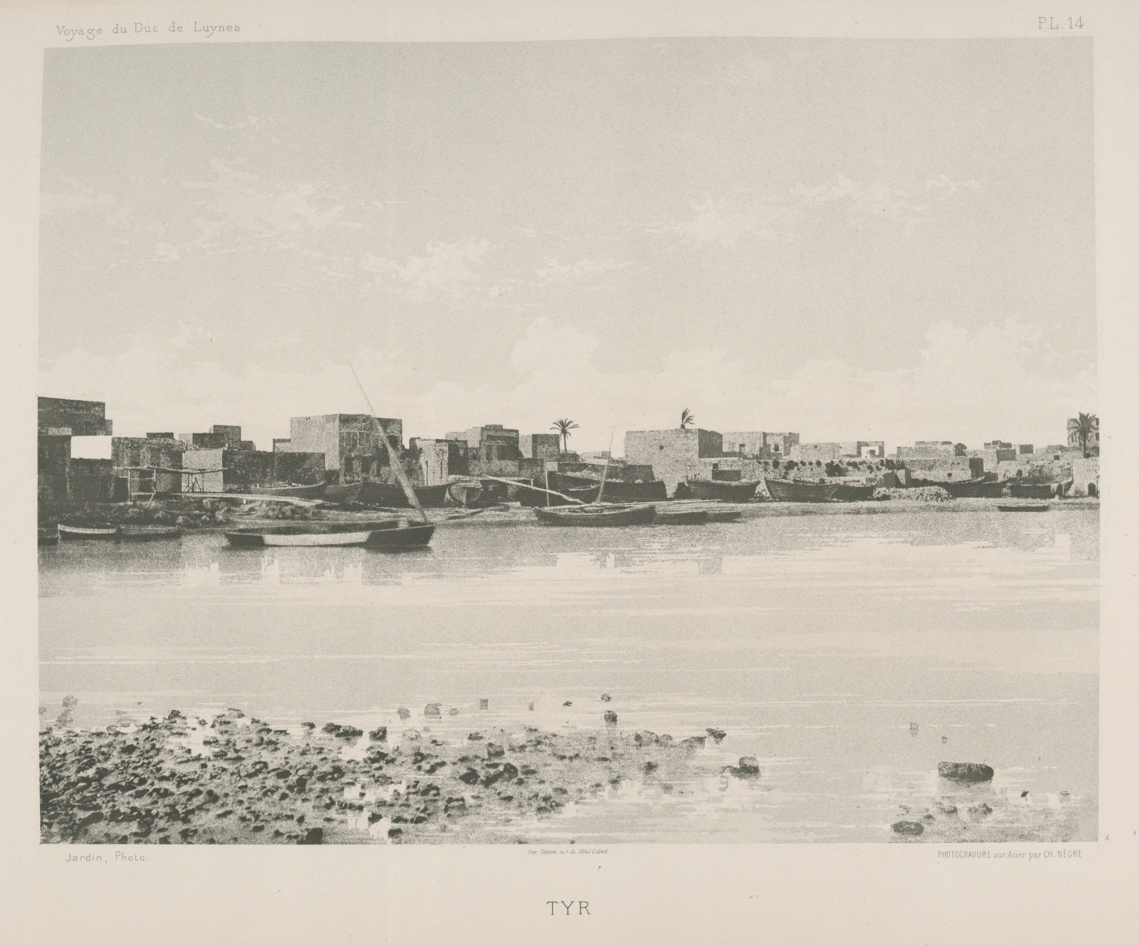 The harbour of Tyre (Sour/Tyr) in what is now Southern Lebanon in 1874 during the Ottoman rule.